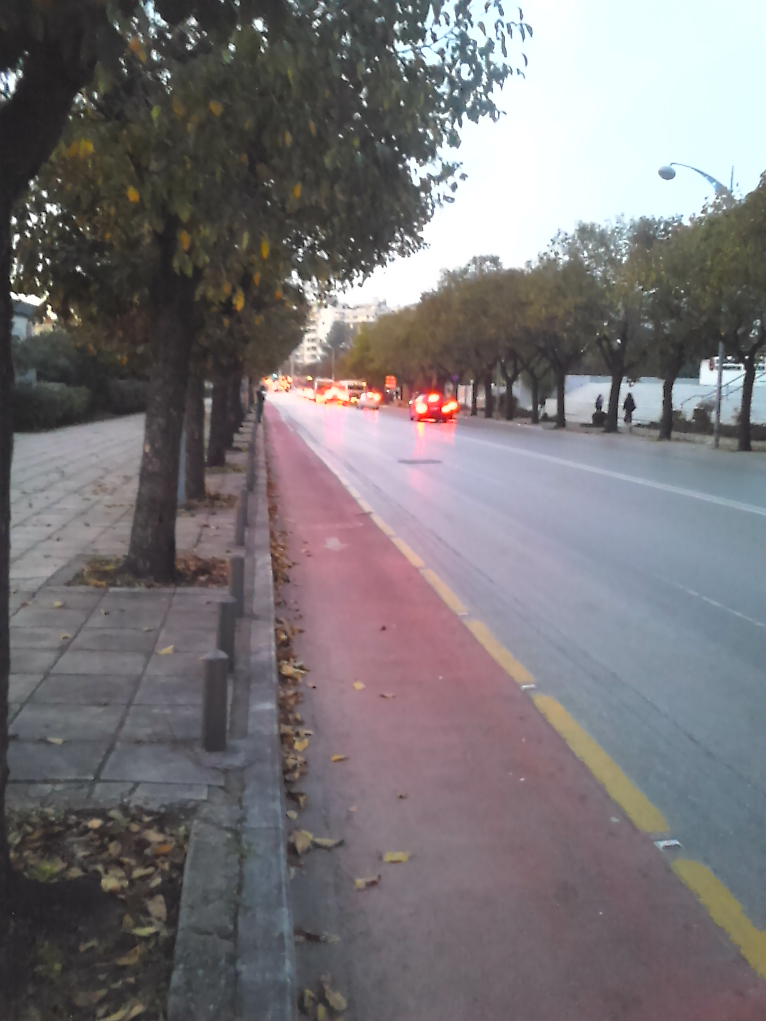 Stratou Avenue near XANTH Sq. (YMCA Sq.) at Thessaloniki, Greece